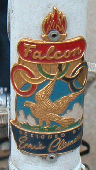 Taken by Andrew Dressel